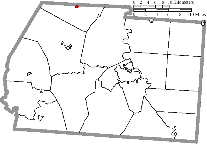 Map of the municipal and township boundaries of Ross County, Ohio, United States, as of the 2000 census, with the location of the village of Clarksburg highlighted. Township borders are shown only in unincorporated areas in order to differentiate incorporated and unincorporated areas more clearly.